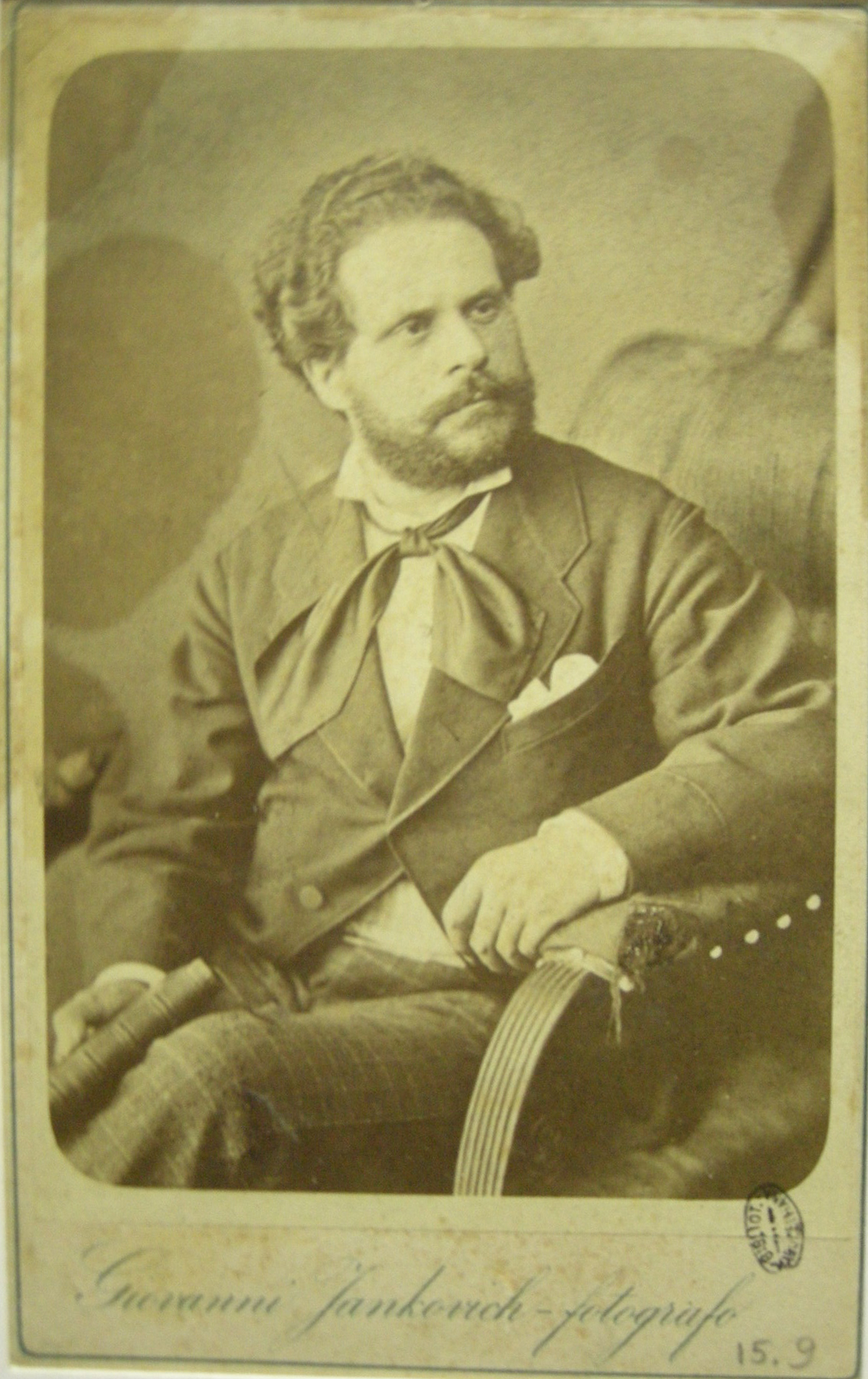 Picture of the beginning of XX century (1900-1903)